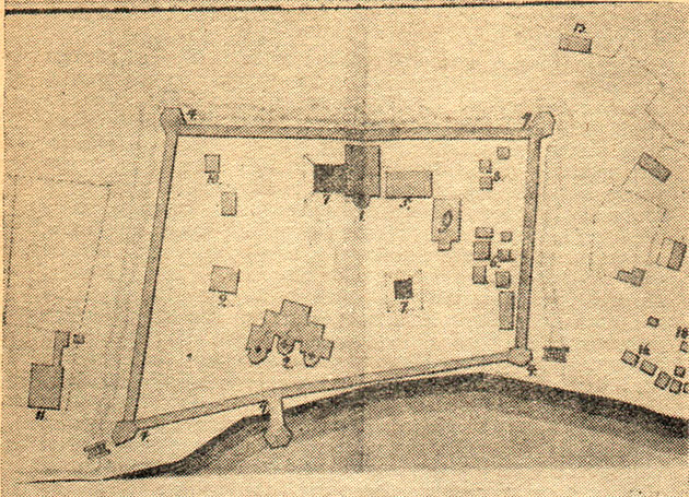 Plan of the Kola ostrog. 1801. #1 - Annunciation Church; 2 - Resurrection Cathedral with a belfry.